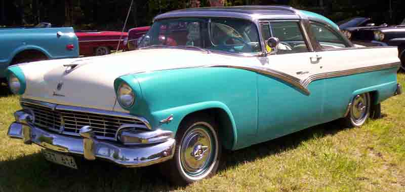 1956 Ford Fairline Crown Victoria Skyliner